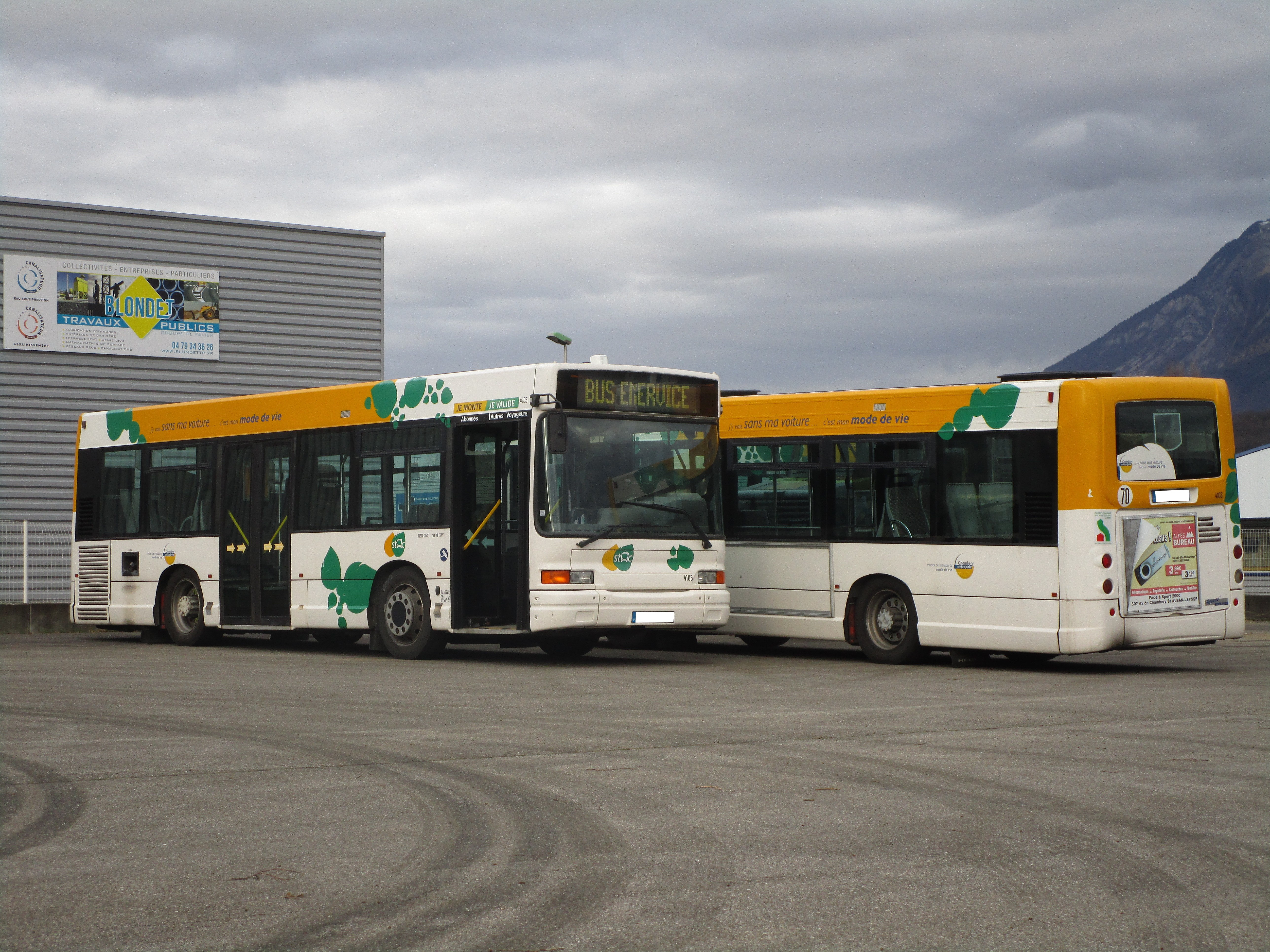 Two Heuliez GX 117 (n°4105 and n°4103 of the French agglomeration community Chambéry Métropole - Cœur des Bauges) in the stable yard of the Garage Vasseur - Renault Trucks (Voglans, France) on February 24, 2017.